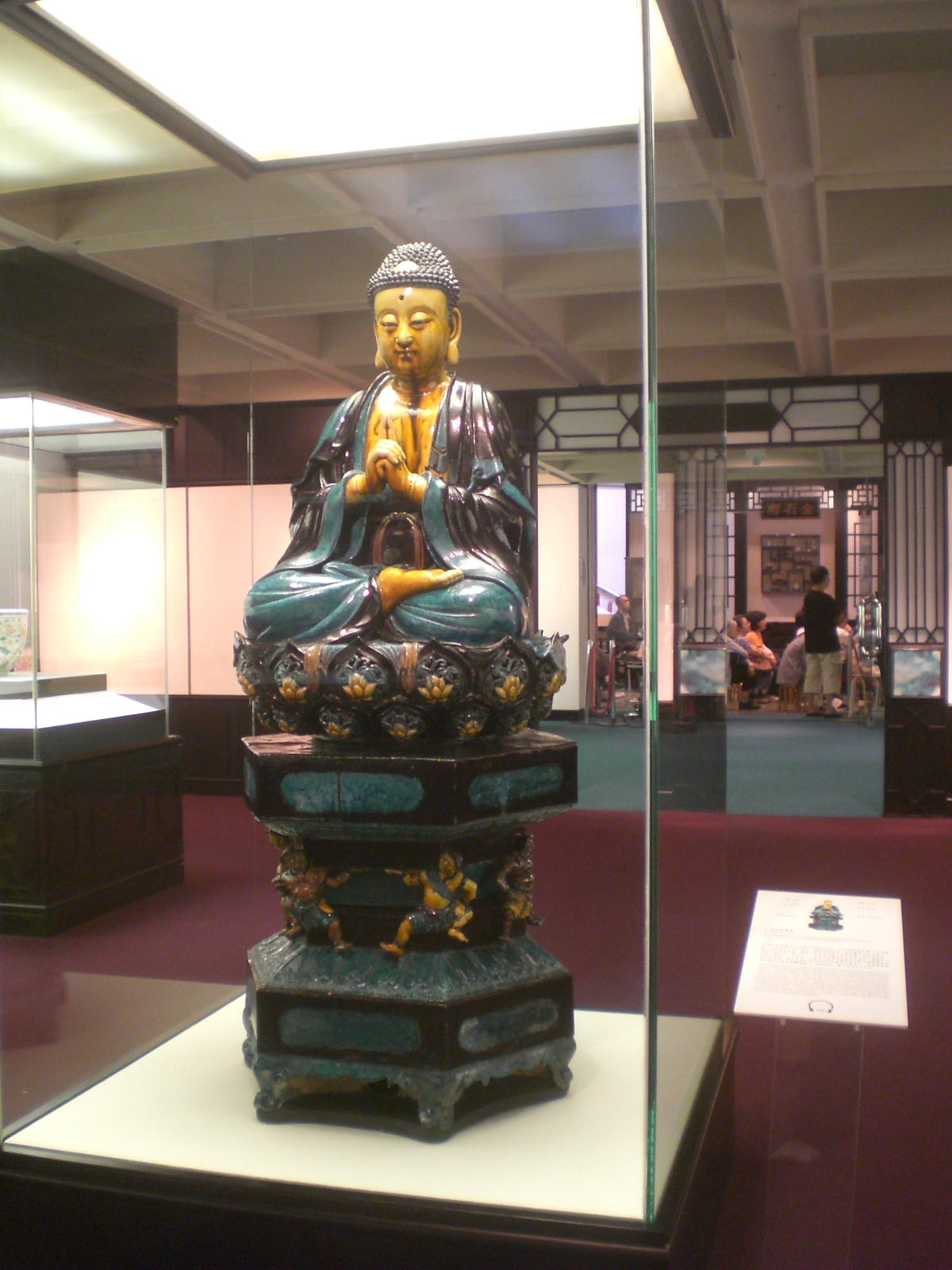 尖沙咀 香港藝術館 佛像 中國藝術陶瓷 藝術中的中國人物 雕塑